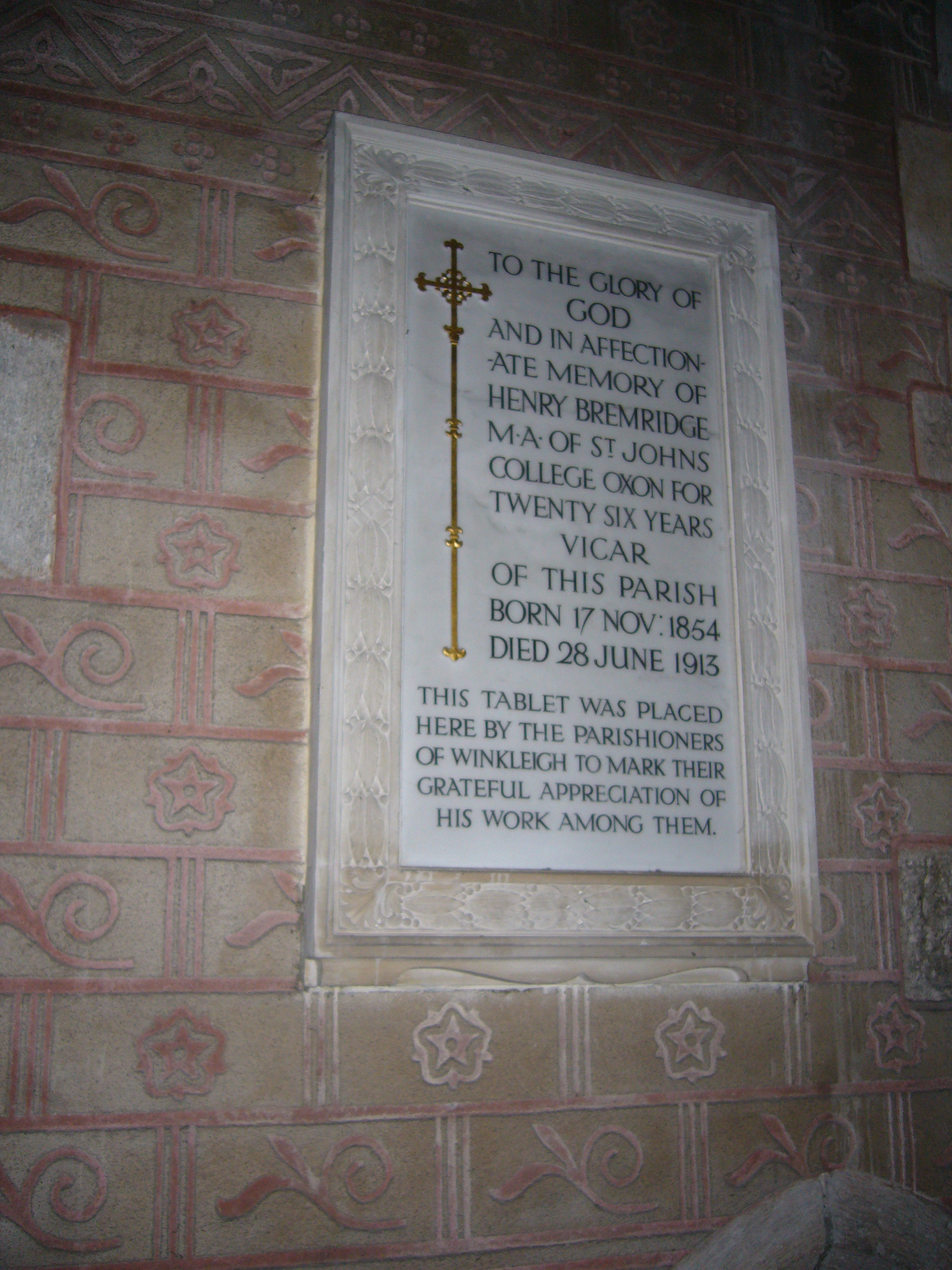 Henry Bremridge 1854-1913 Vicar at Winkleigh for 26 years.